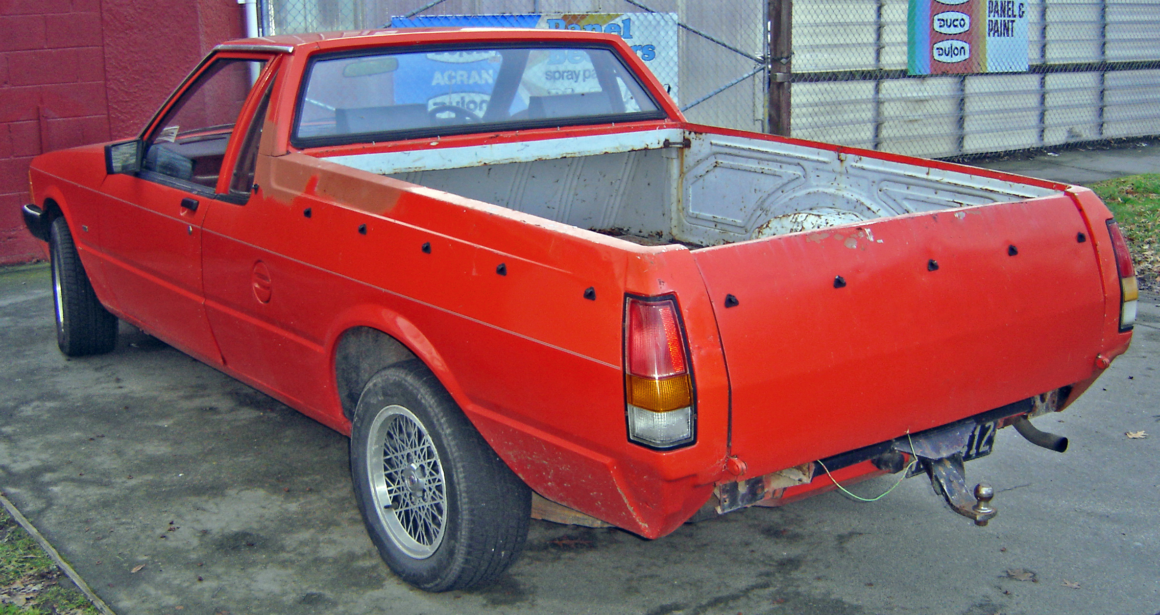 1982 Ford XD Falcon utility, photographed in Christchurch, New Zealand.